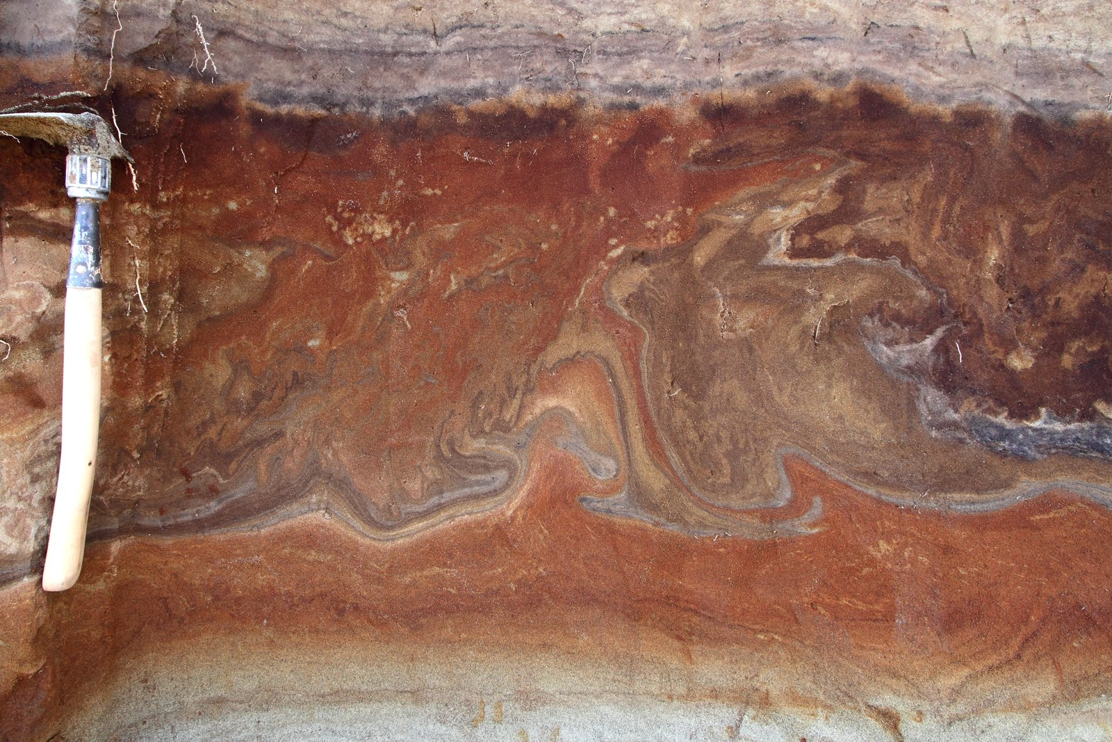 Cryoturbation: Also known as periglacial processes, ice in soil can lead to dramatic warping and mixing of sediment layers. Read more